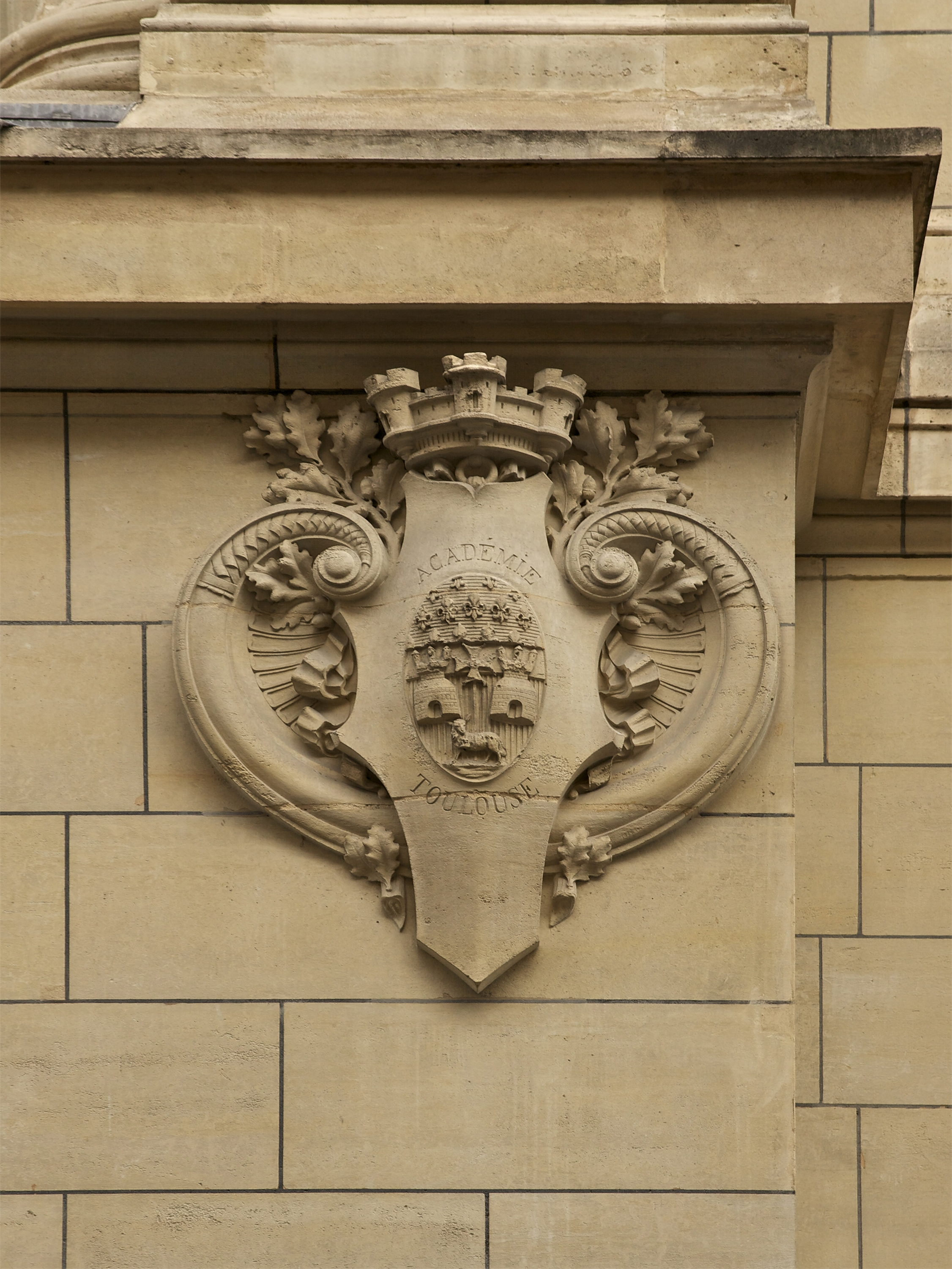 The coat of arms of Academy of Toulouse, on a wall of the Sorbonne, in Paris, France.